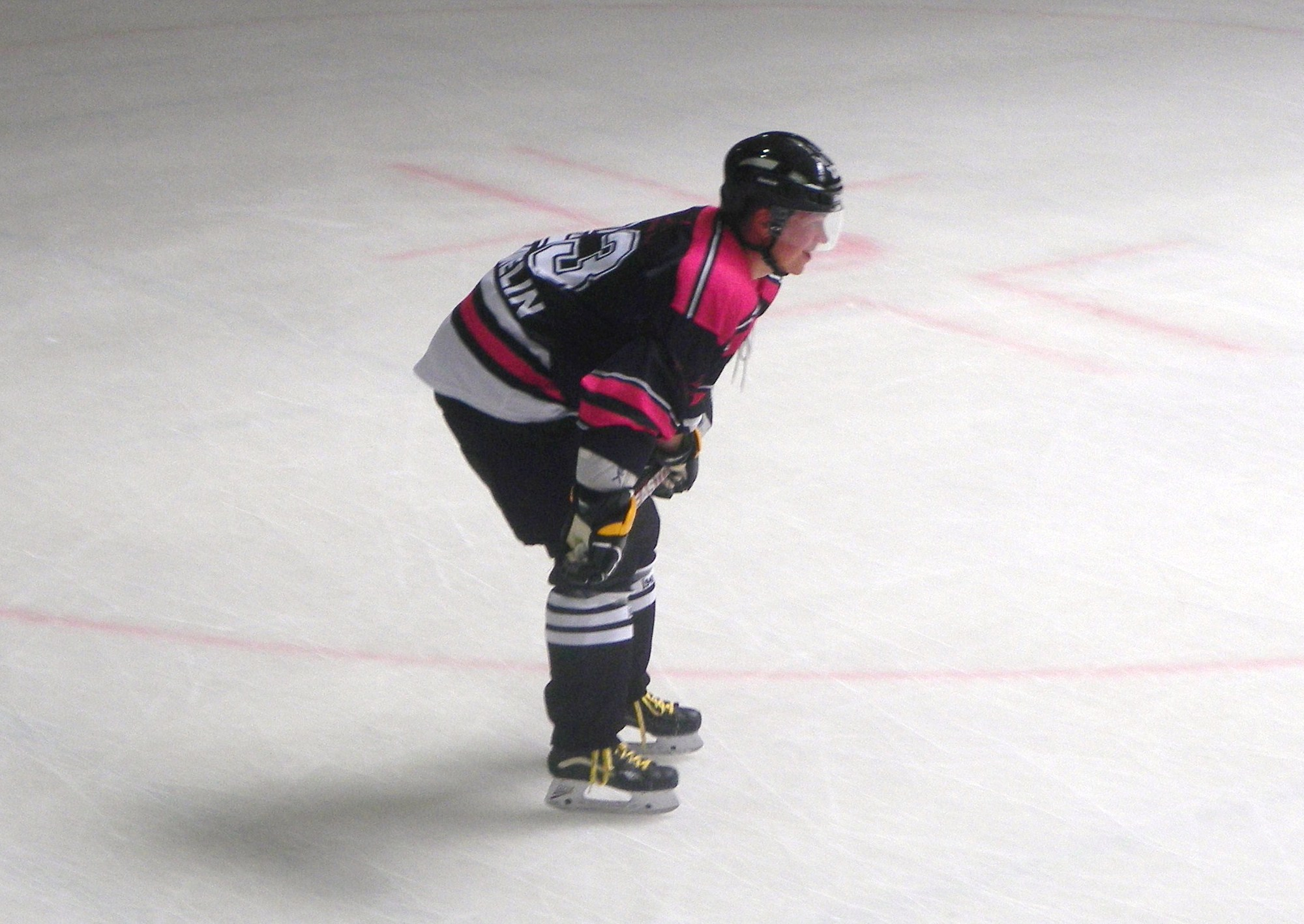 Finnish ice hockey player with HC Lugano.